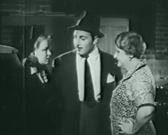 Low resolution screenshot from the American film Confessions of a Vice Baron (1943). The film was mainly constructed from footage of other films and is now in the public domain. In this scene, borrowed footage from The Wages of Sin (1938), Marjorie Benton (Constance Worth) is introduced to madam Fat Pearl (Clara Kimball Young) by Lucky Lombardi (Willy Castello).